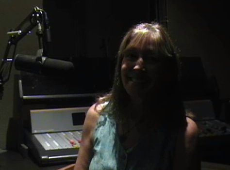 Ali Ryerson sits in the Jazz 88 Studios Master Control chatting with Vince Outlaw during the Jazz Live Interview.